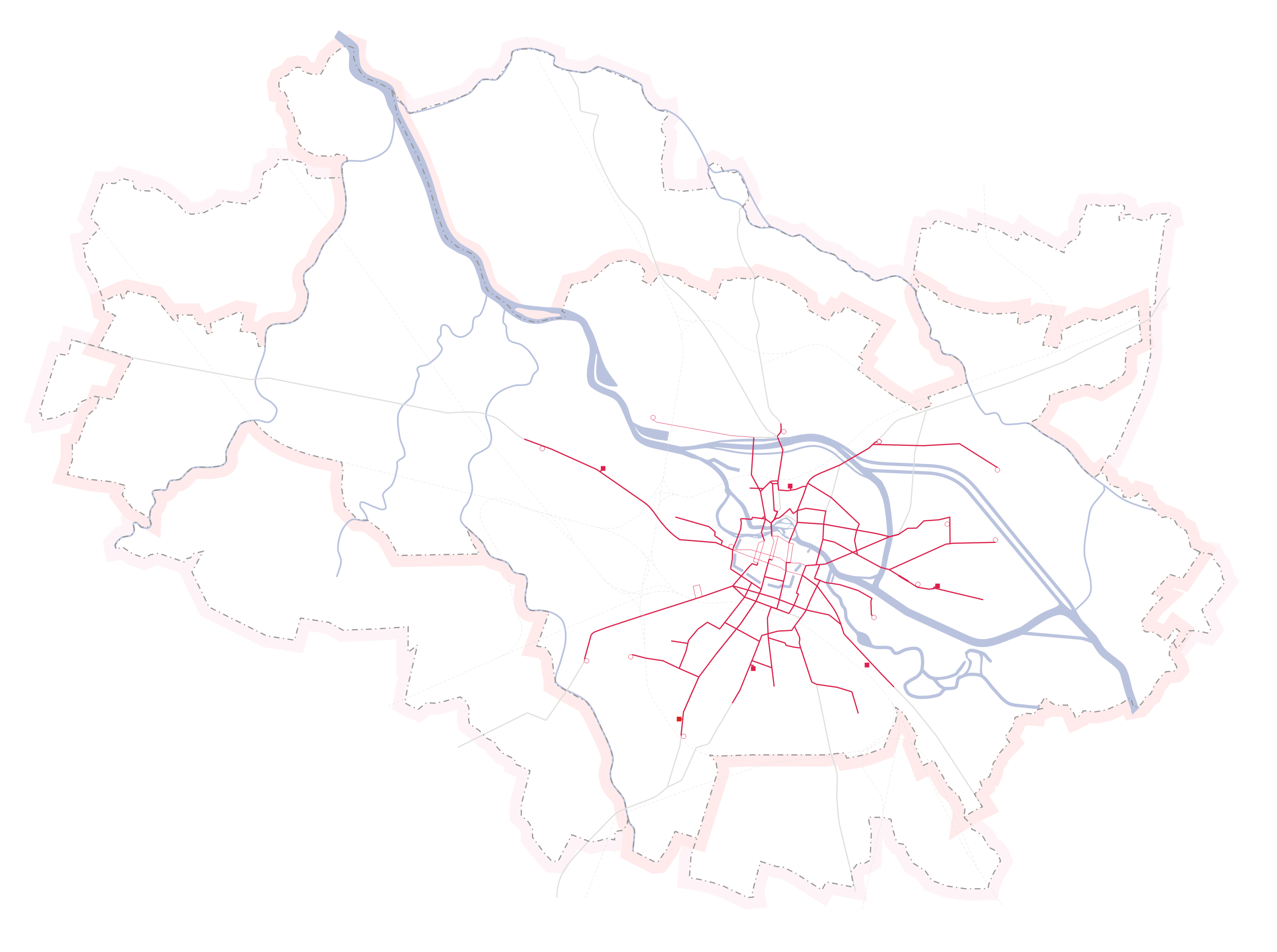 Streetcar network in Wrocław about 1939, details see below